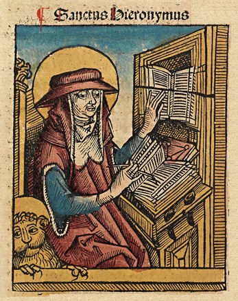 Illustration from the Nuremberg Chronicle